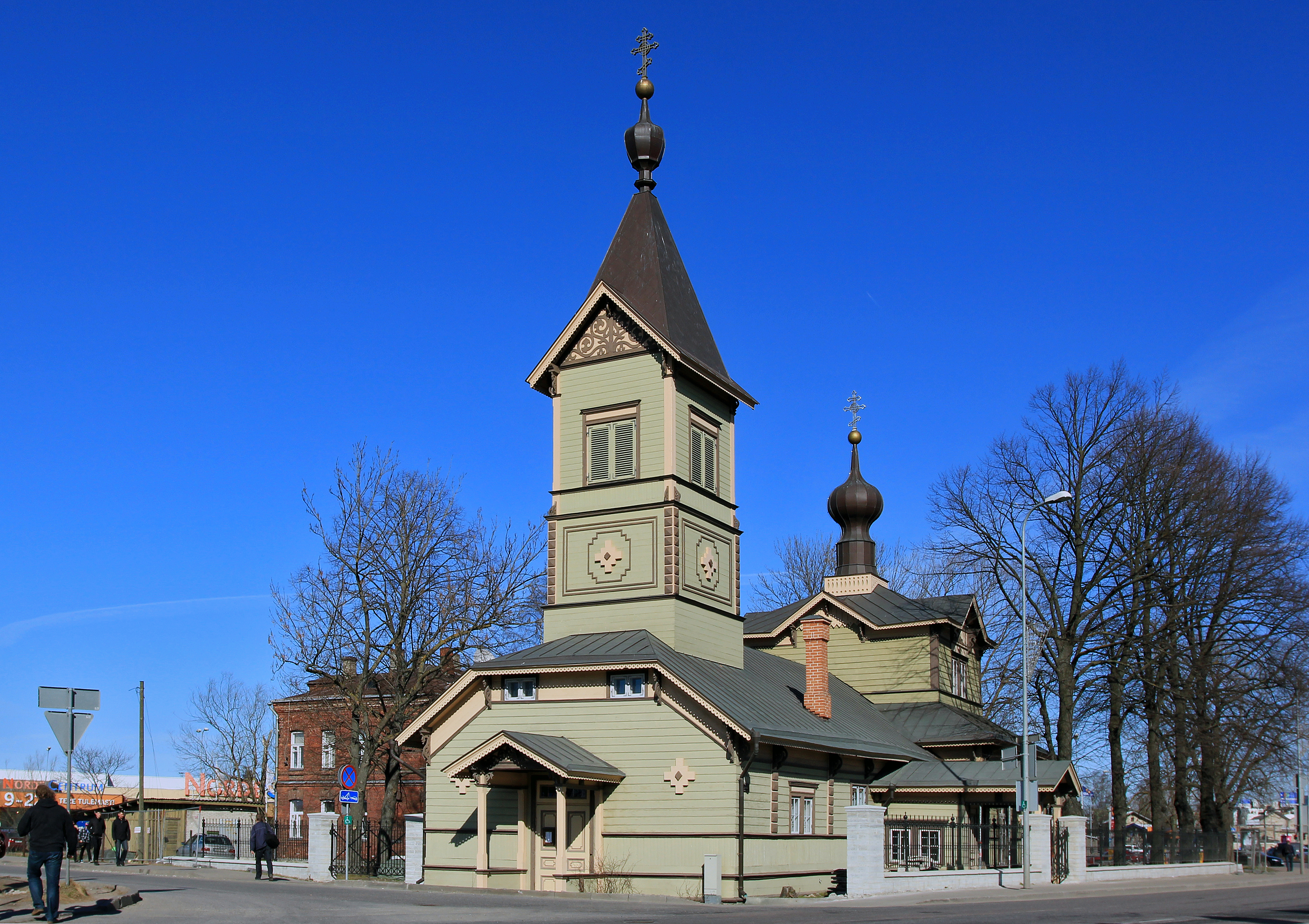 Church of St. Simeon and the Prophetess Hanna, Tallinn, Estonia